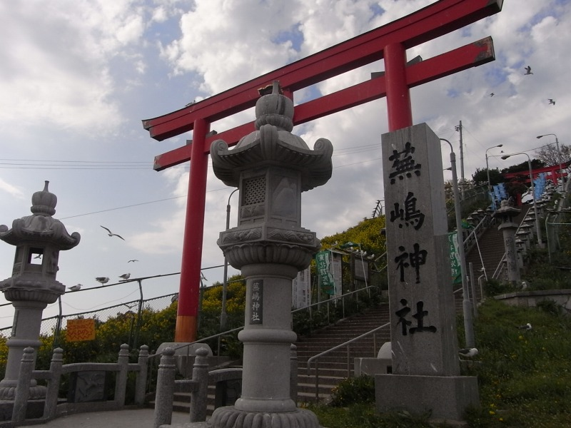 Kabushima-jinja in May 2012